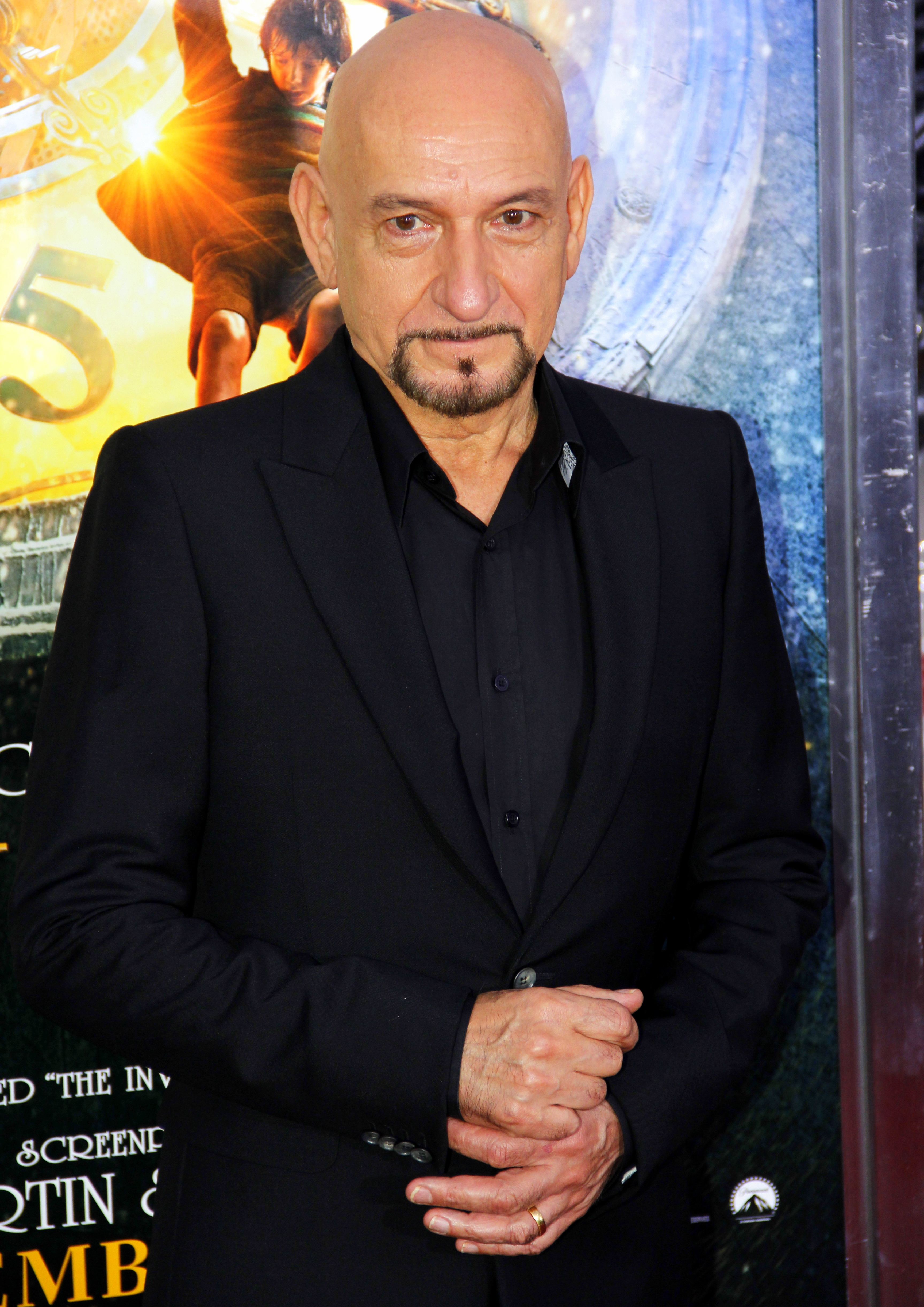 Ben Kingsley at the Hugo Film Premiere, New York City 2011.